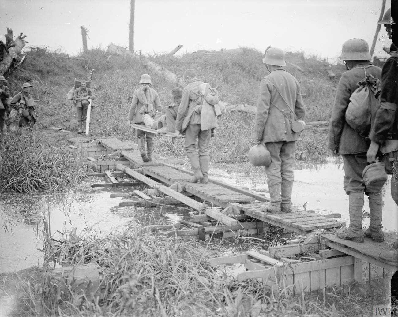 The Battle of Passchendaele, July-november 1917 Battle of Pilckem Ridge. German prisoners and British wounded crossing a duck board bridge over the Yser Canal. Near Boesinghe, 31 July 1917.